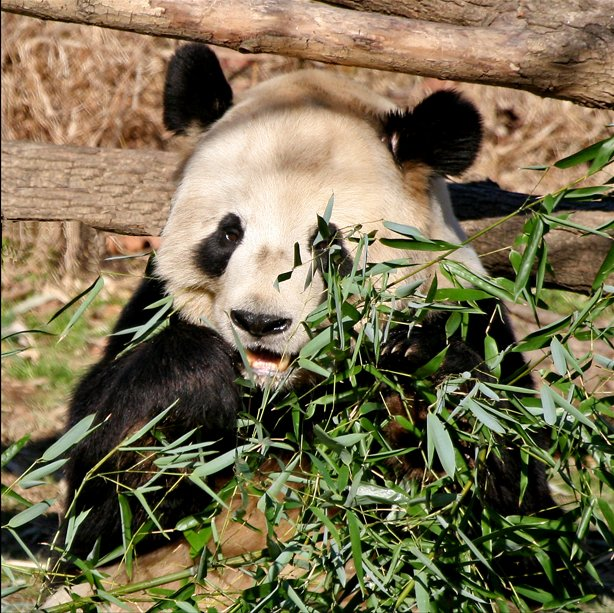 nothing is better than a big pile of bamboo. this is the baby panda at the national zoo in washington, dc